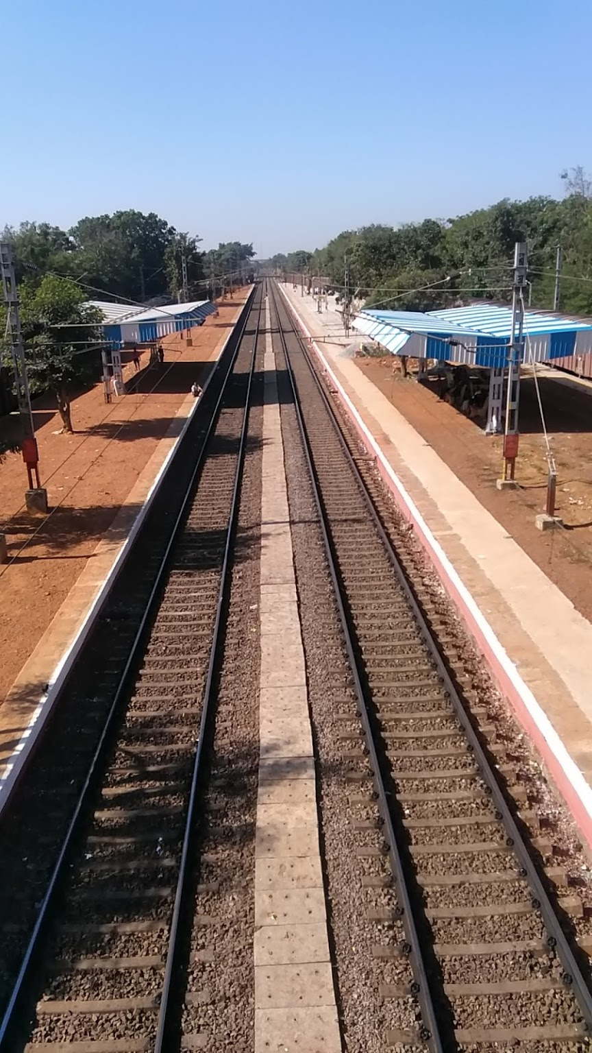 This is the Picture of Bhusandapur railway station